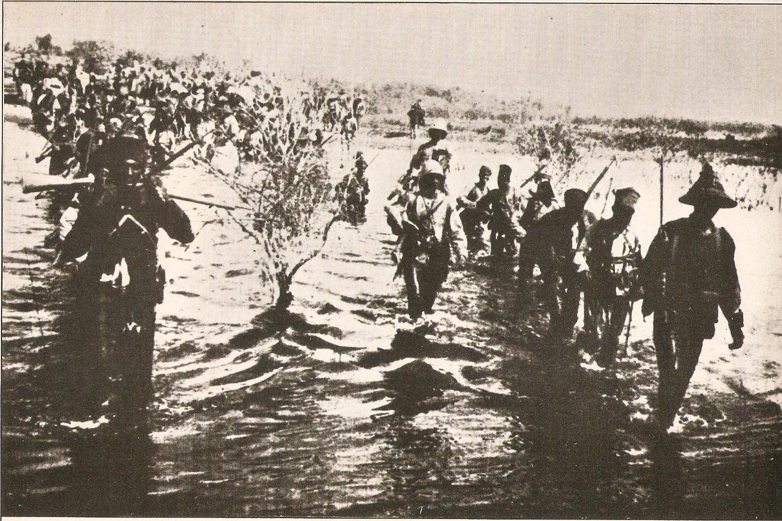 French invasion of Nguigui, Chad.